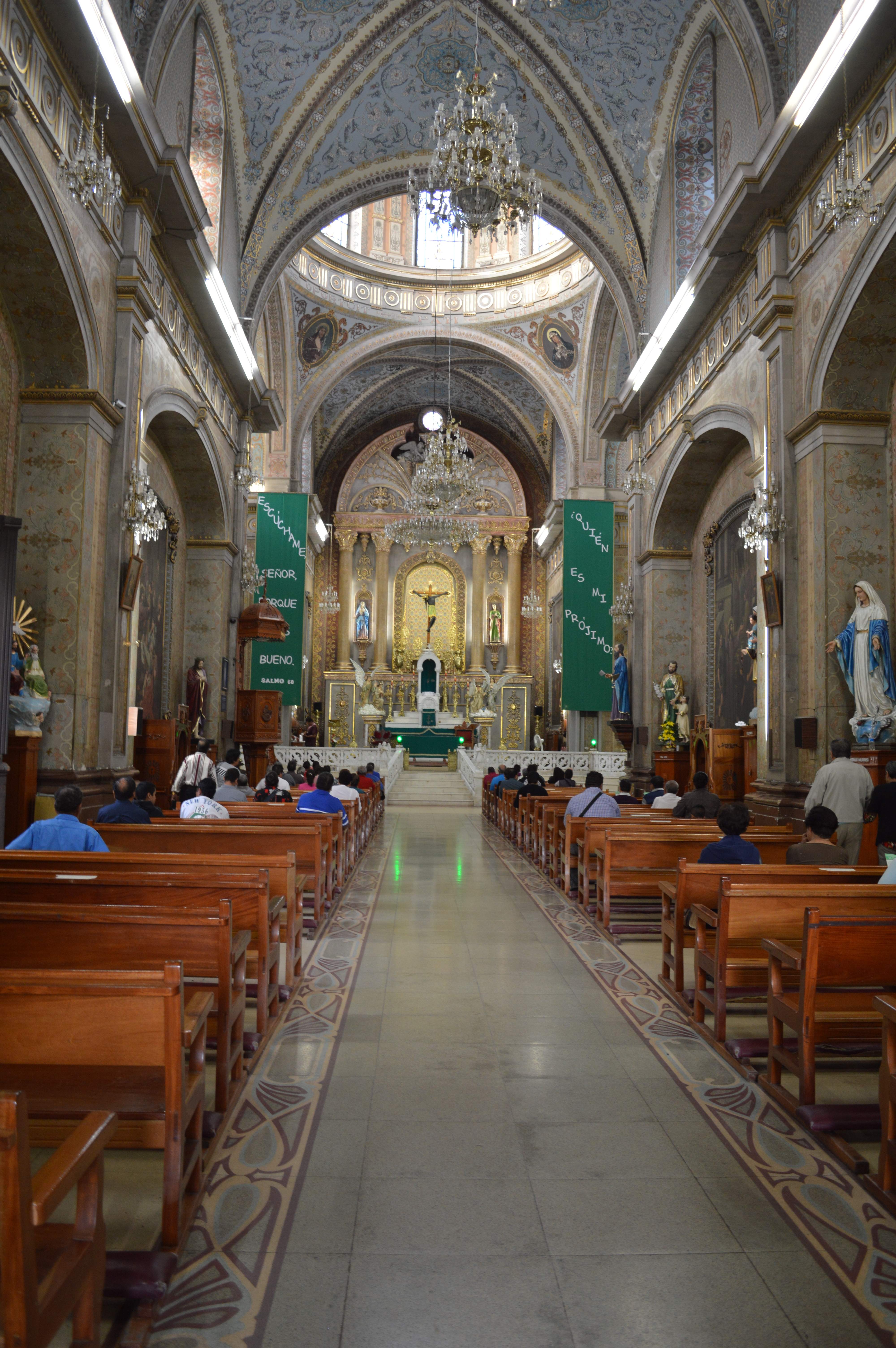 Interior of the parish of Señor del Hospital church in Salamanca, Guanajuato, Mexico